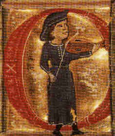 Perdigon from a 14th-century chansonnier.